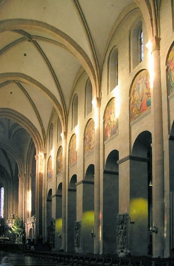 Wandaufriss des Langhauses des Mainzer Doms // Lateral view of the nave of the Cathedral of Mainz